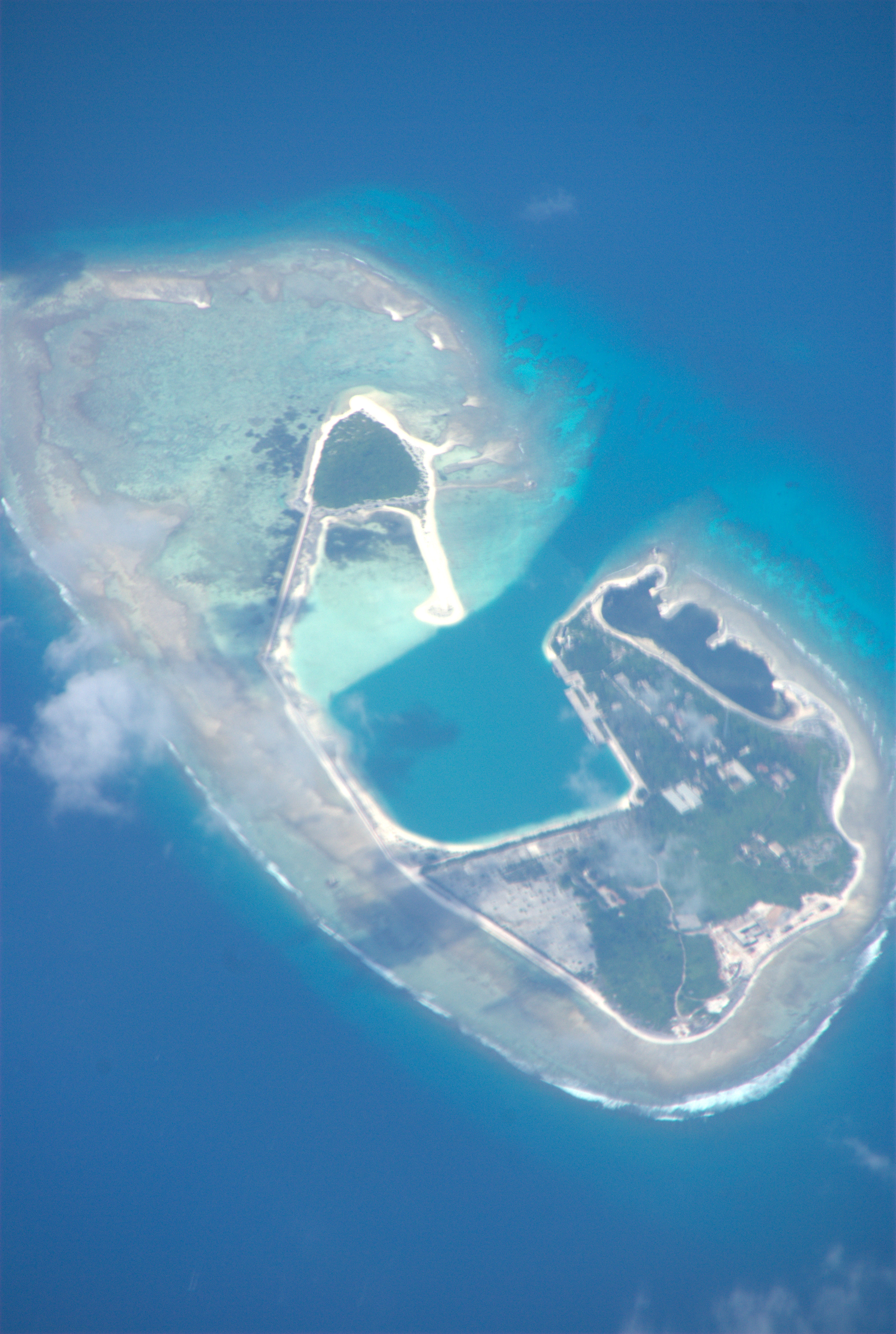 Aerial photograph showing recent harbour developments on Duncan Island